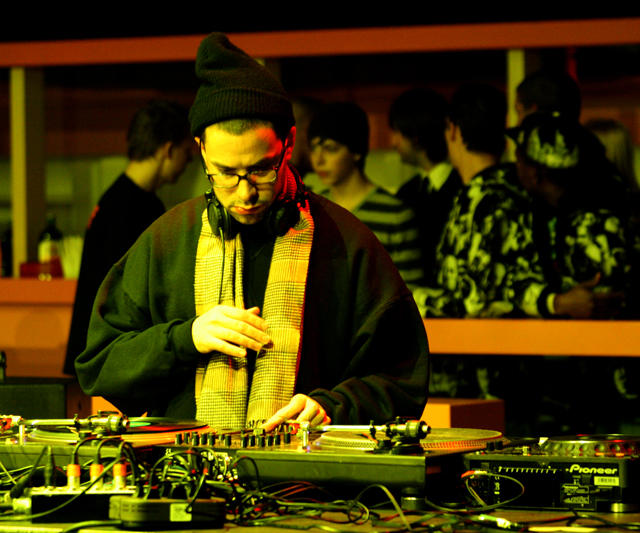 Hip hop producer and deejay Preservation preparing for his set with rapper Mos Def in Budapest on November 23, 2007